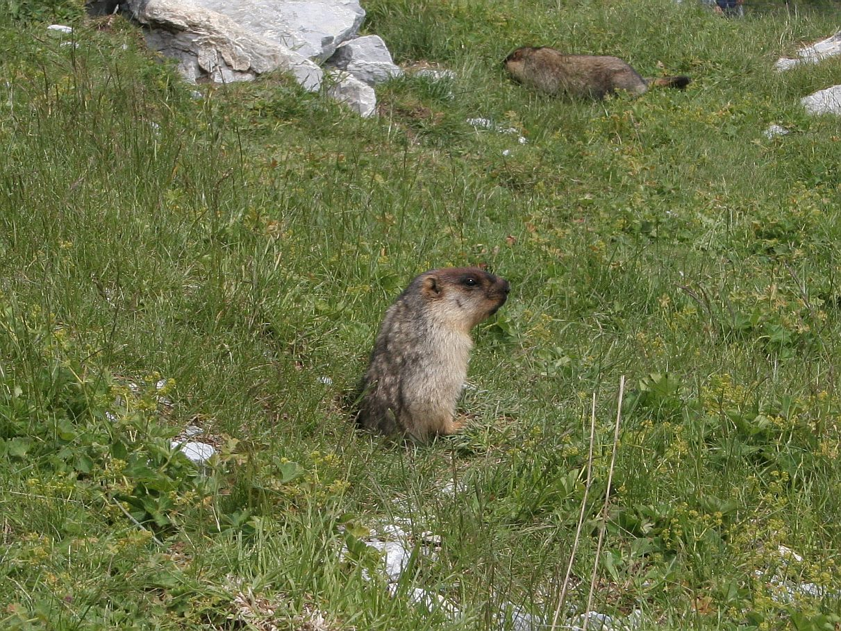 Marmota camtschatica Rochers de Naye, Suisse (Marmot paradise)